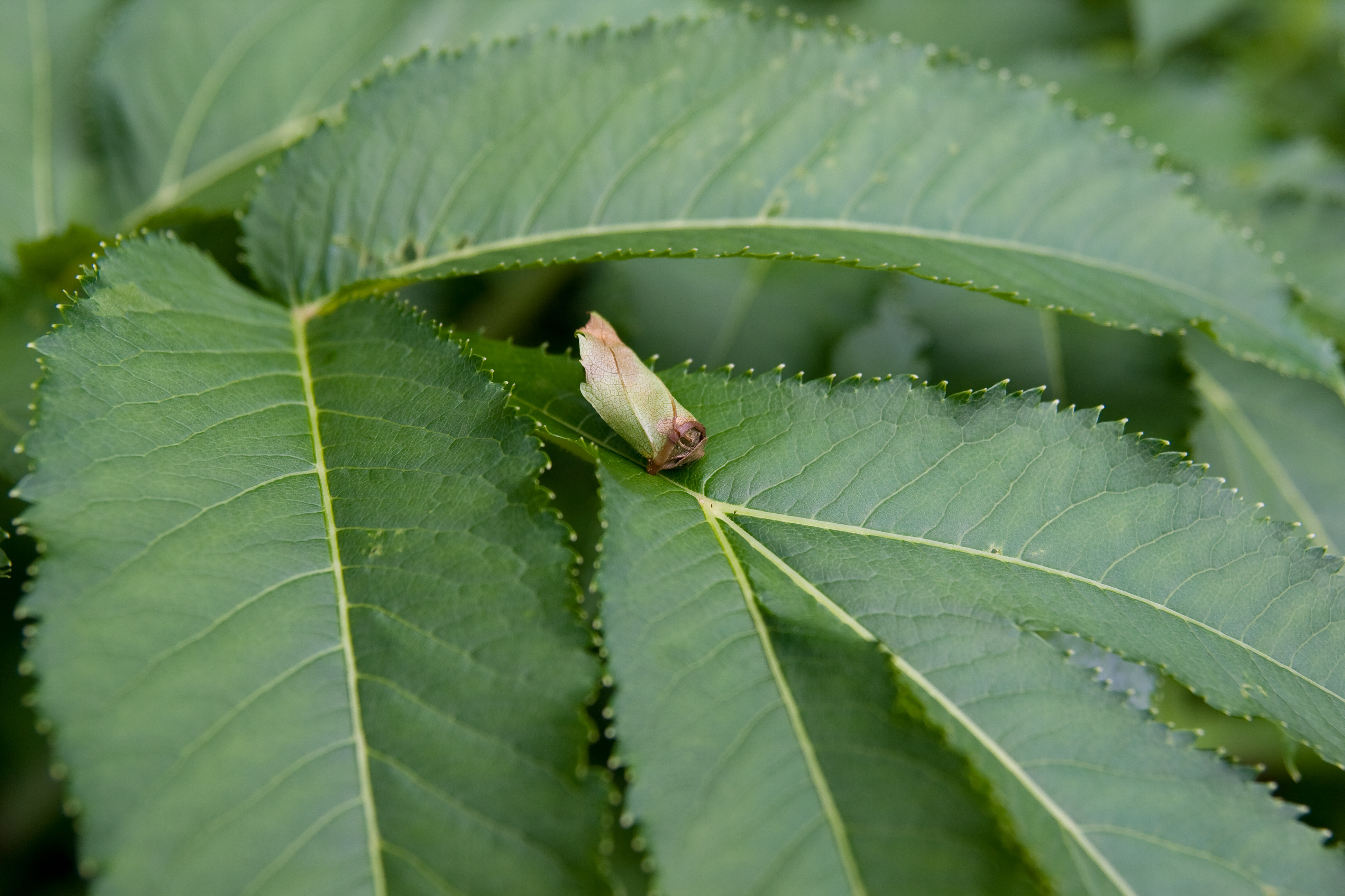 The cradle of Attelabidae (leaf-rolling weevils)